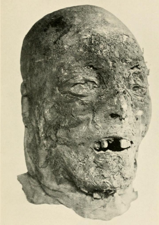 A mummified head, reputedly that of Henry Grey, 1st Duke of Suffolk, who had been executed for treason by Queen Mary I in 1554. This head had been found in 1849 in vaults at Holy Trinity, Minories, and was later passed to St Botolph's Aldgate where it was eventually buried in 1990.